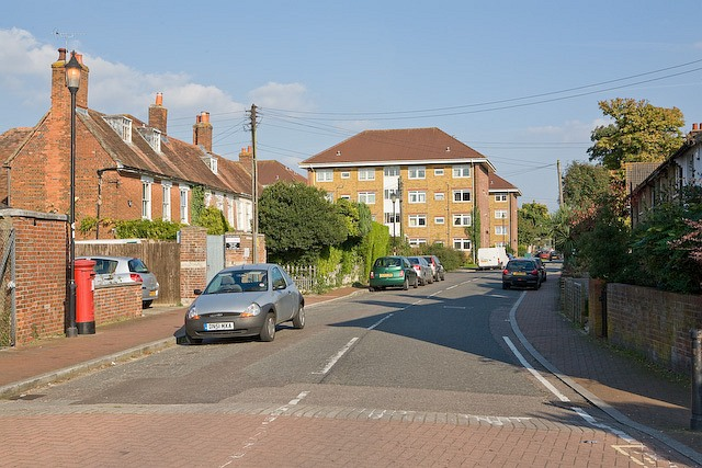 Old Redbridge Road The square blocks of flats, of which there are seven, are named Clover Nook. The one in view is numbers 81 to 96. The row of cottages to the left are Grade II listed buildings (see [1].)